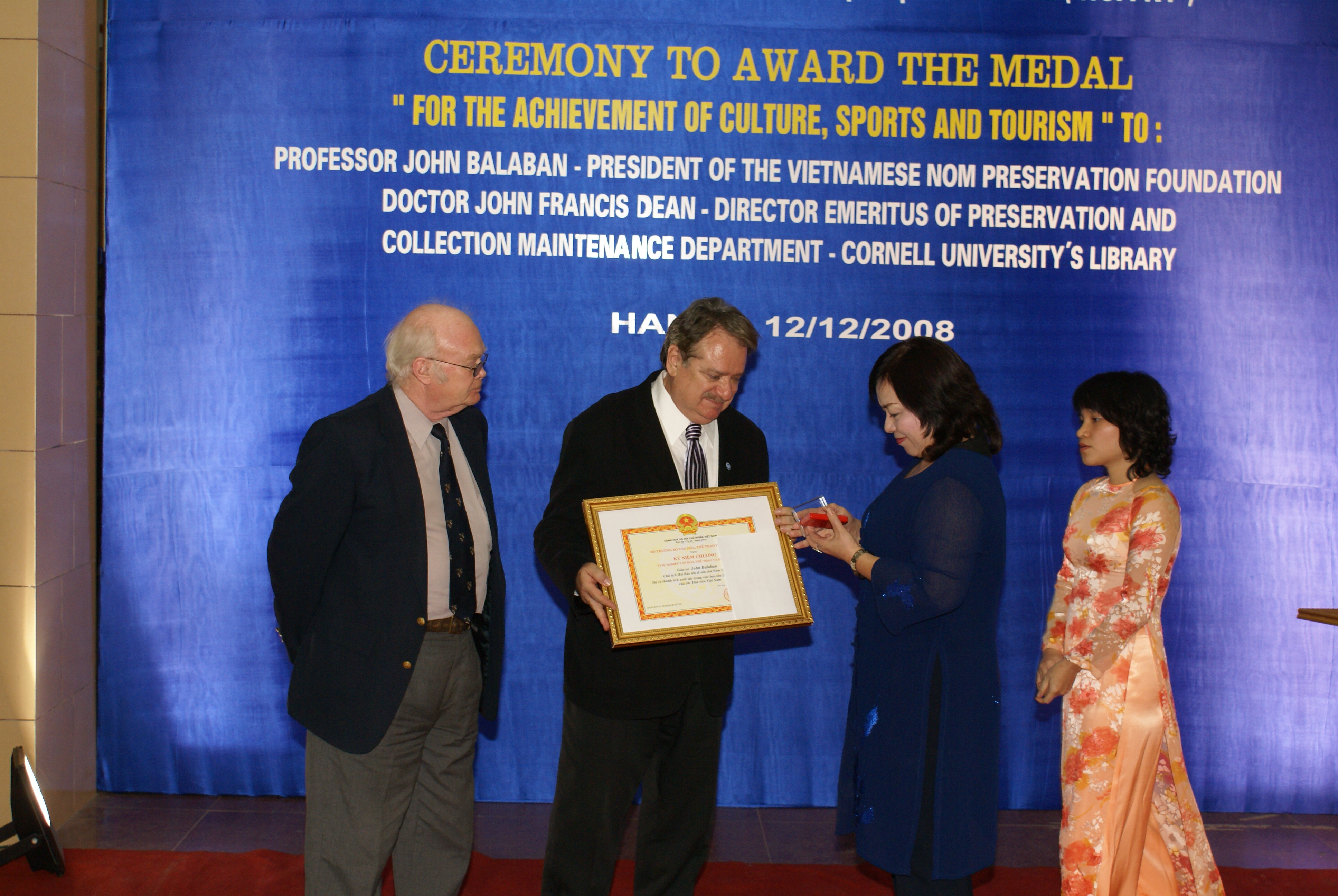 American poet John Balaban receives the Medal for the Cause of Culture, Sports, and Tourism of Viet Nam from the Vietnam Ministry of Culture on December 12, 2008.